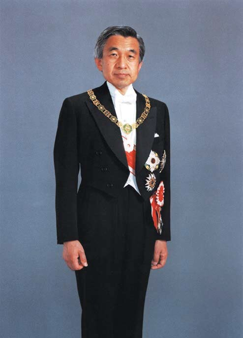 Emperor Akihito, the 125th Emperor of Japan